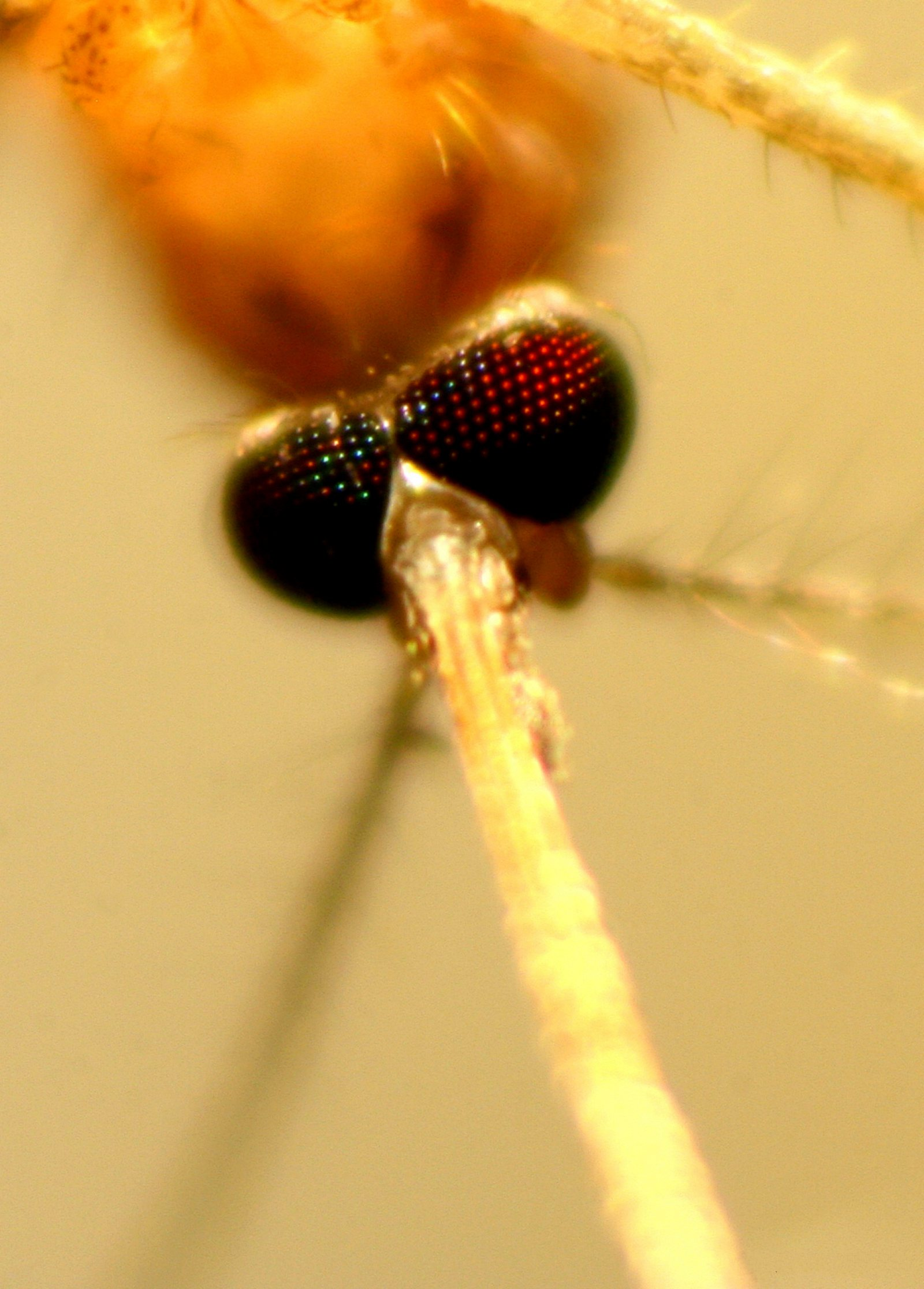 The mosquitoes are a family of small, midge-like flies: the Culicidae. Although a few species are harmless or even useful to humanity, most are a nuisance because they consume blood from living vertebrates, including humans. The females of many species of mosquitoes are blood eating pests. In feeding on blood, some of them transmit extremely harmful human and livestock diseases, such as malaria. Some authorities argue accordingly that mosquitoes are the most dangerous animals on Earth